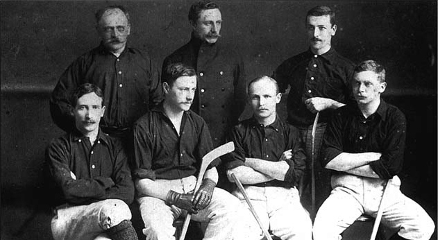 Members of the Ottawa Hockey Club, 1885. Agar S.A.M. Adamson at top right.